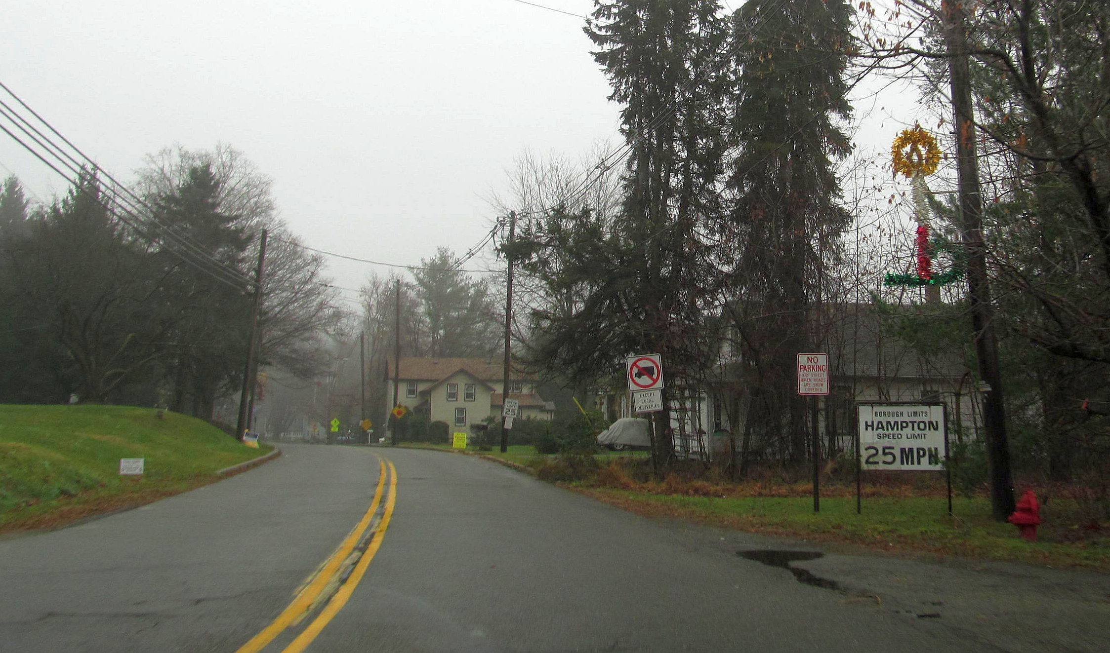 Entering Hampton, New Jersey along Route 635